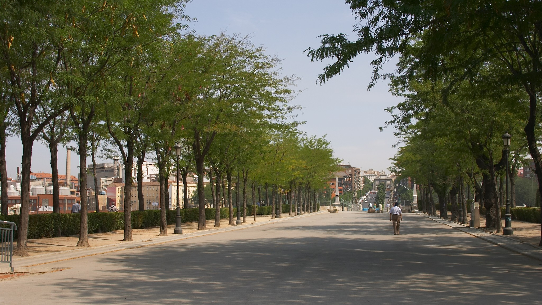 Madrid's Bridge of Toledo.